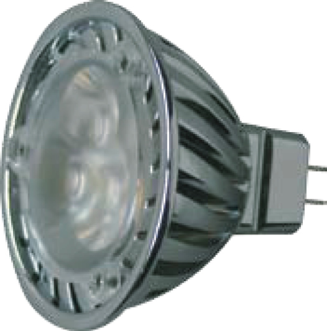 High Power LED lamp GU5.3